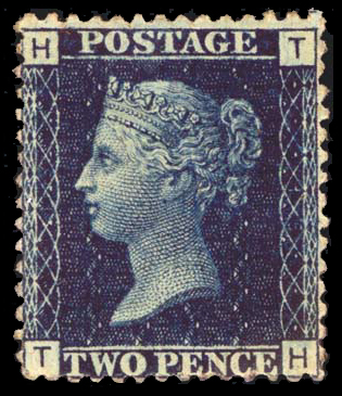 Postage stamp of United Kingdom, the Queen Victoria, 2d Blue (1858)